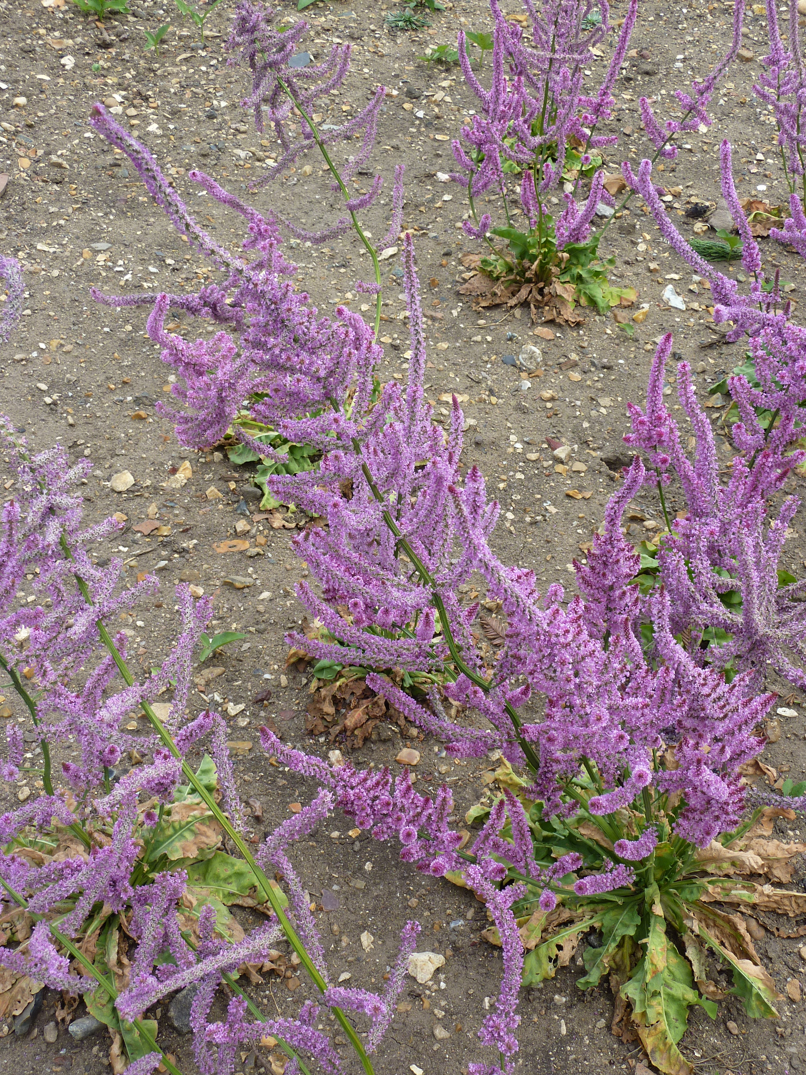 Taken in the Cambridge University Botanic Garden